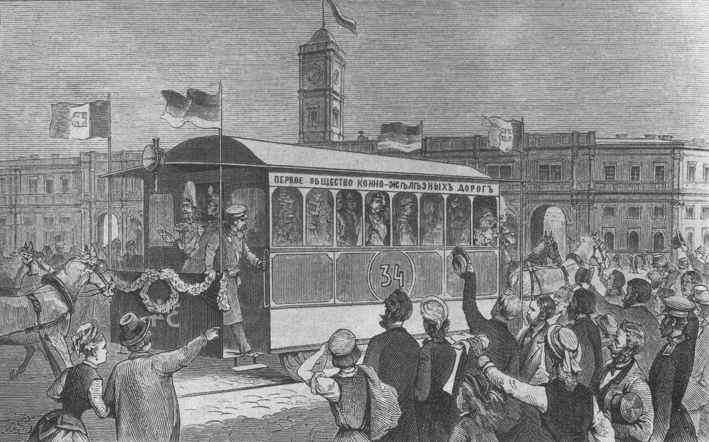 Their Royal Highnesses Prince and Princess of Piedmont in a carriage of horsetram in front of the Nikolaevsky rail terminal. From drawing ca 1860s-1880s